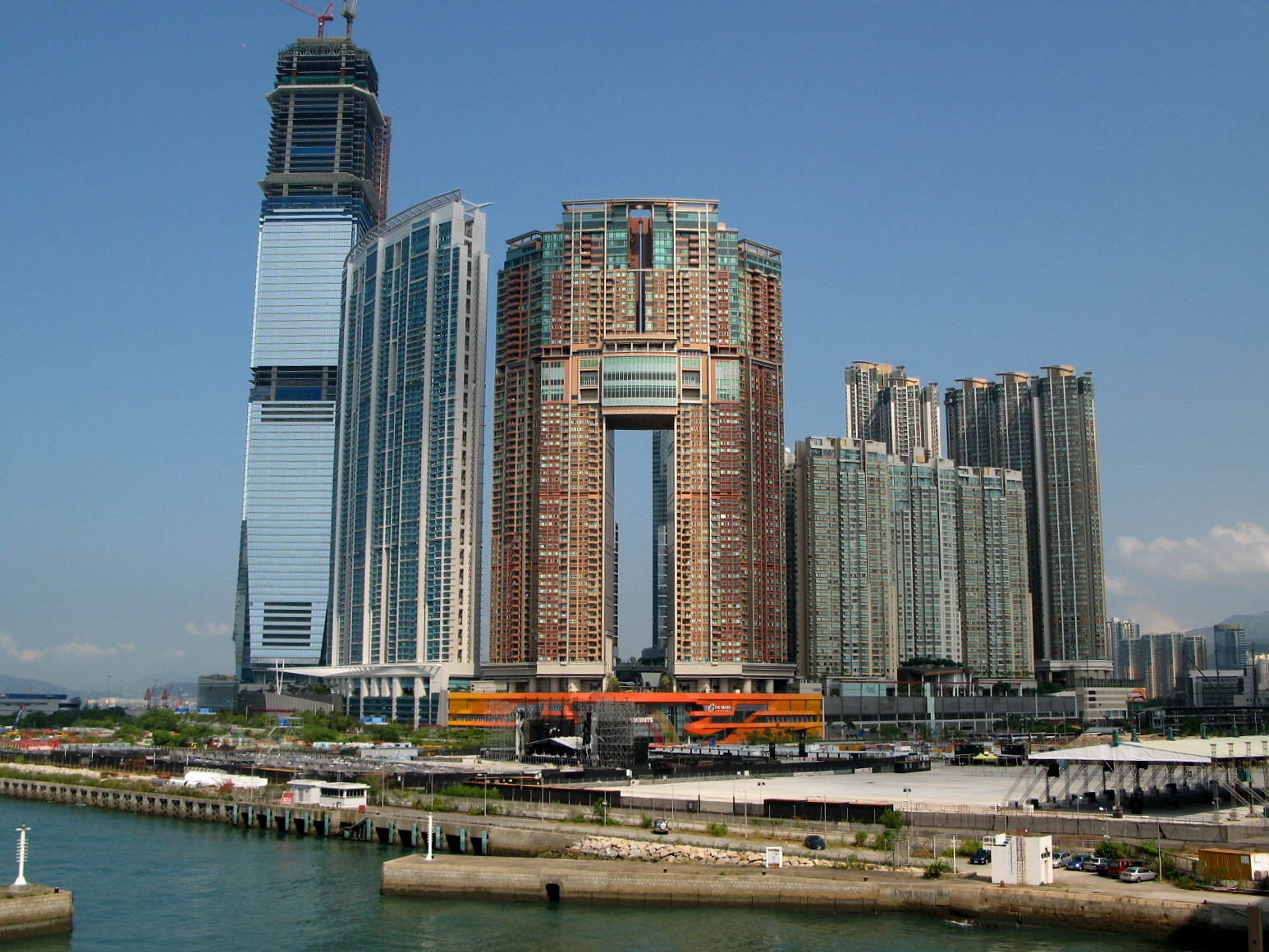 從尖沙咀遙望Union Square (左起︰環球貿易廣場、君臨天下、凱旋門、漾日居、擎天半島) Union Square view from Tsimshatsui (From left to right: International Commerce Centre, The Habourside, The Arch, The Waterfront, Sorrento)